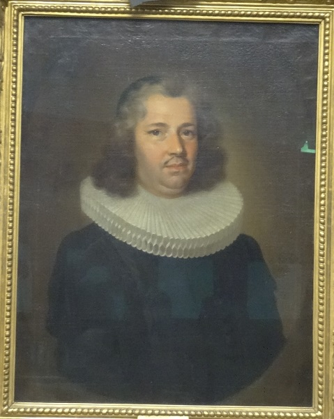 "Portrait of a cleric", oil on canvas, Hans Hinrich Rundt, 1702, Collection Kunsthalle Hamburg, Germany